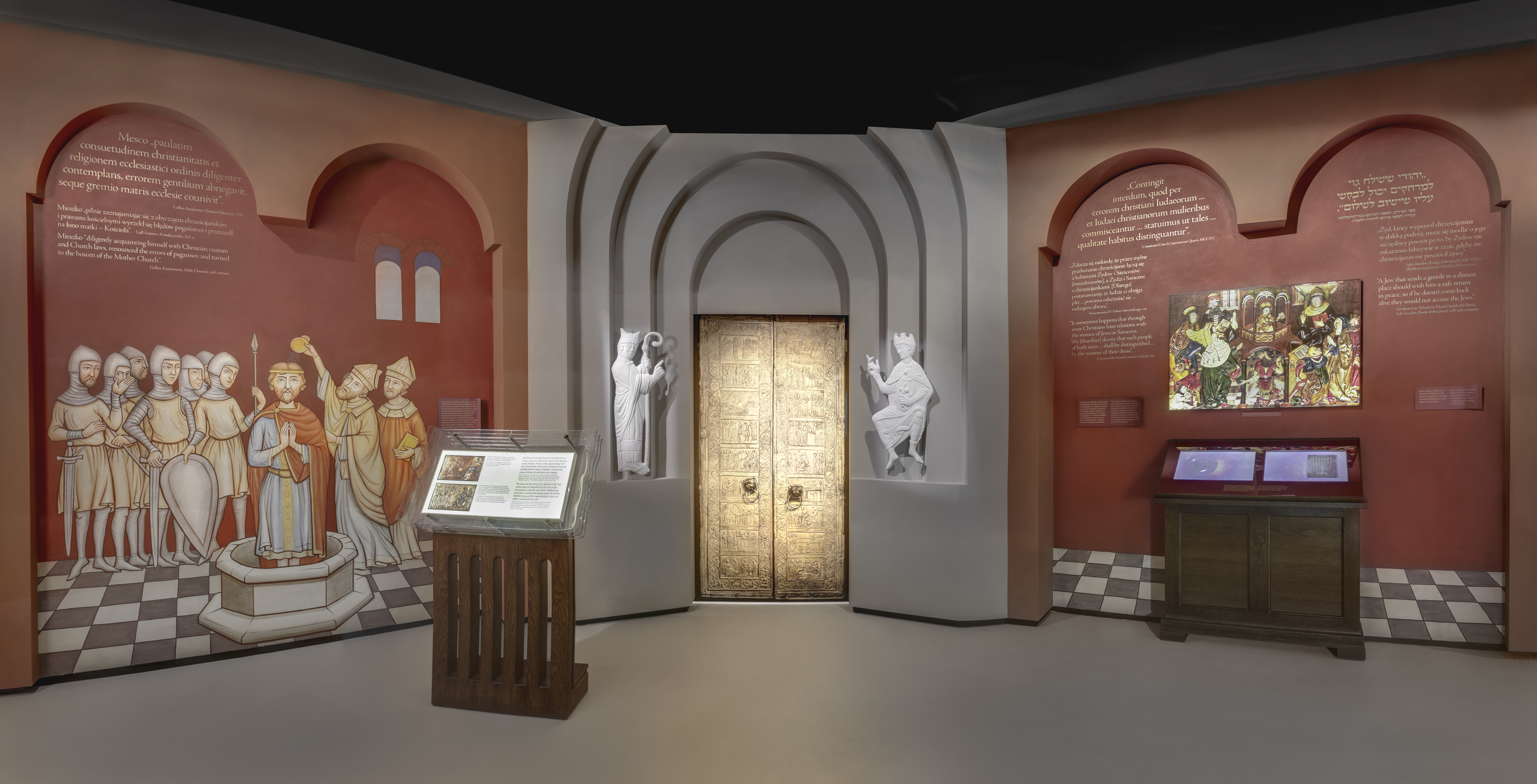 Main exhibition of the Museum of the History of Polish Jews in Warsaw. "First encounters" gallery